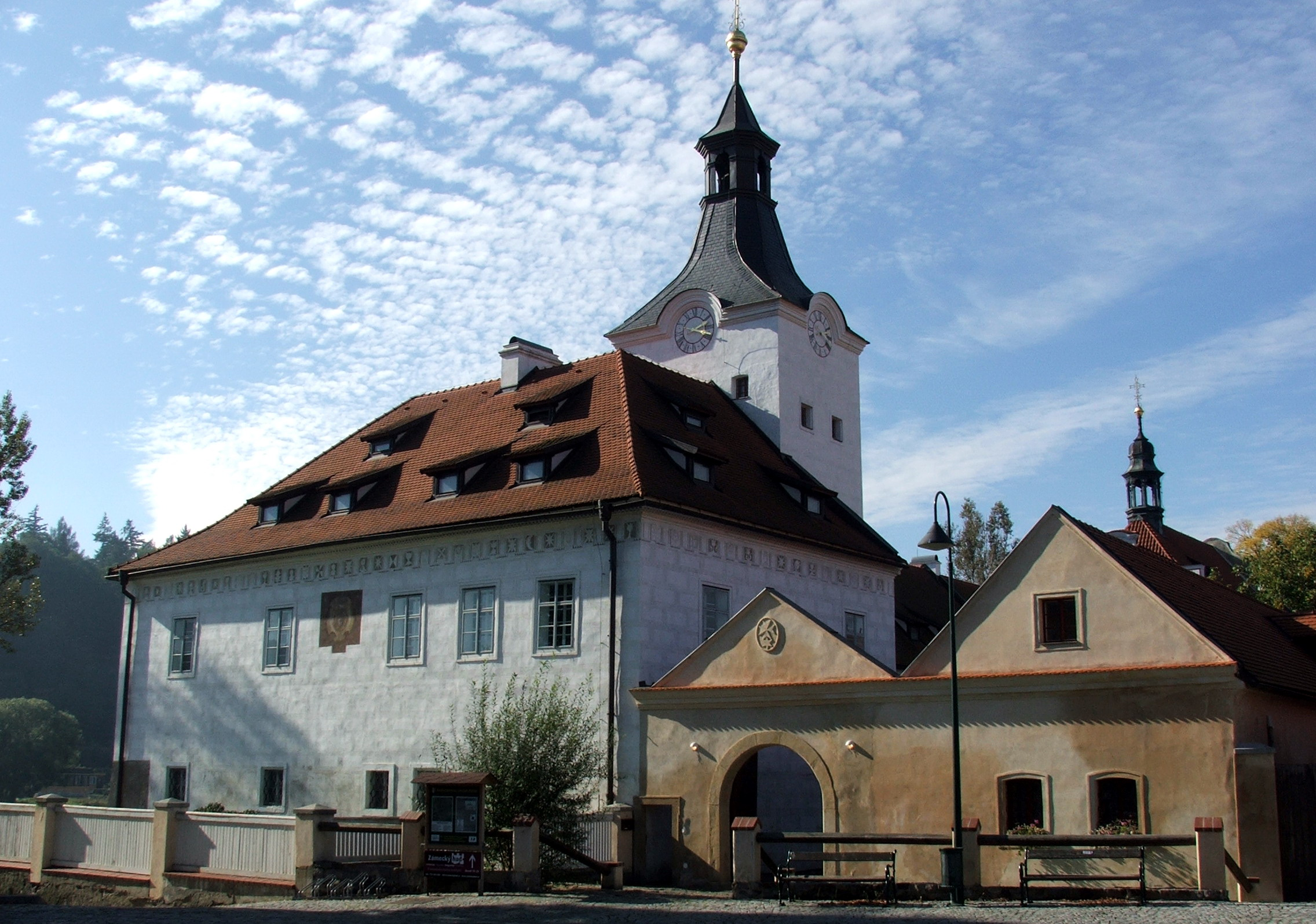 Dobřichovice Castle near Berounka river